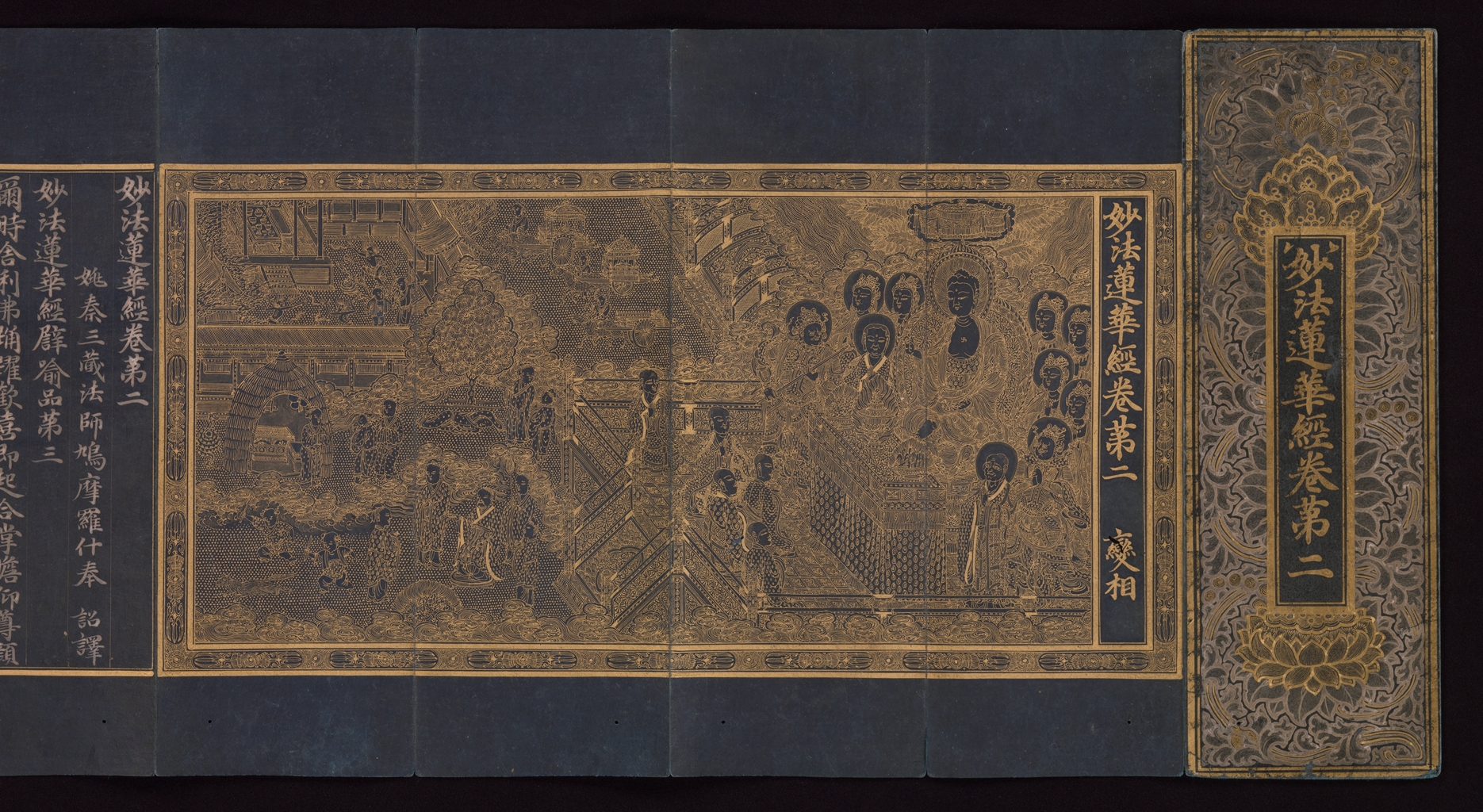 Illustrated Korean manuscript of the Lotus Sutra, Koryô (Goryeo) Dynasty (918–1392), ca. 1340, Folding book, gold and silver on indigo-dyed mulberry paper; 106 pages; each 33 x 11.4 cm, Metropolitan Museum of Art